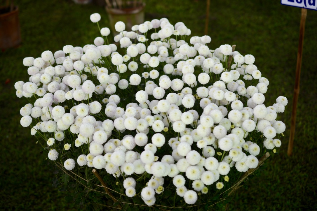 Flowers